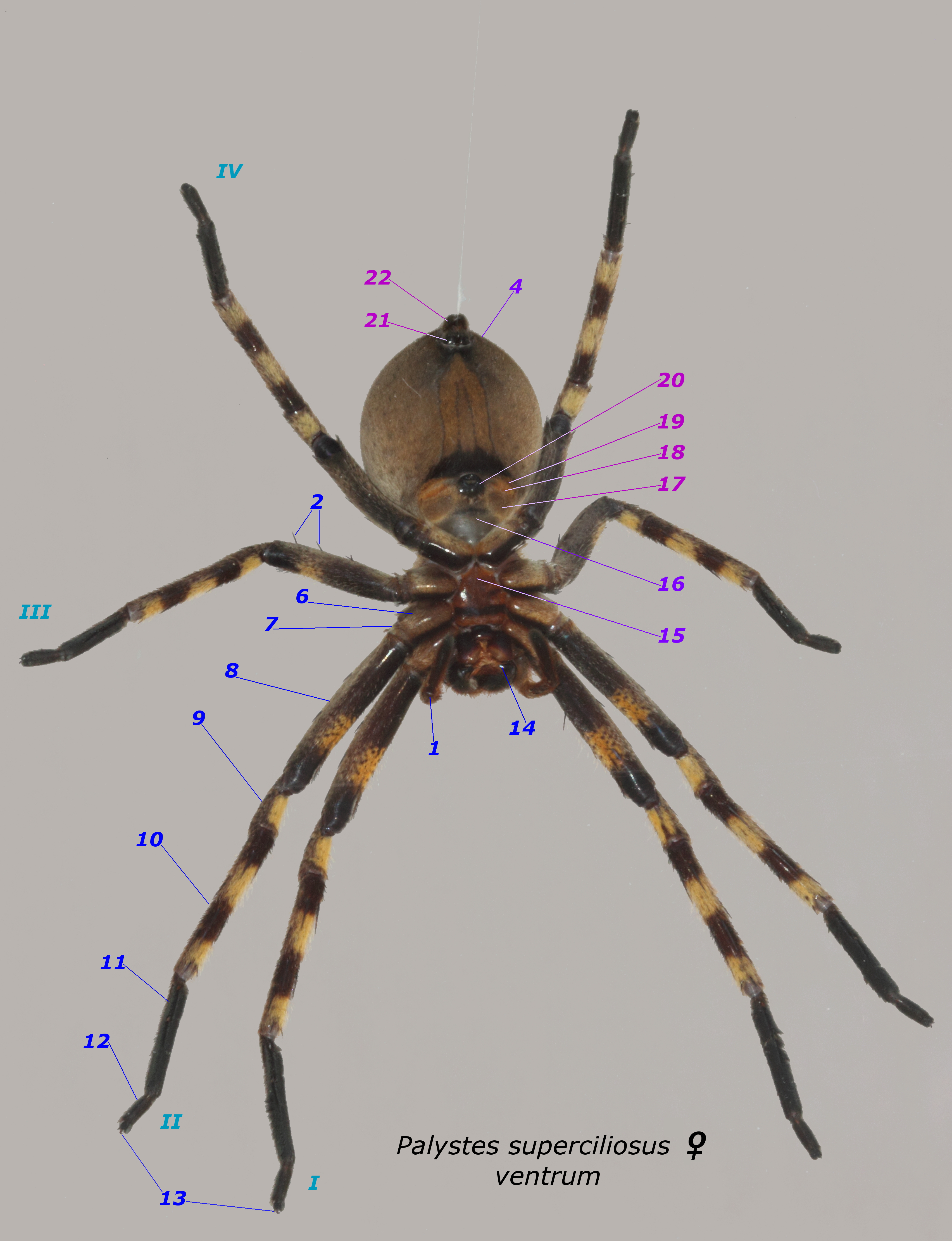 Palystes superciliosus female ventral aspect 1: pedipalp 2: trichobothria 3: carapace of prosoma not shown 4: opisthosoma (abdomen) 5: eyes not shown Leg segments: 6: coxa 7: trochanter 8: patella 9: tibia 10: metatarsus 11: tarsus 13: claw 14: chelicera 15: sternum of prosoma 16: pedicel (also called pedicle) 17: book lung sac 18: book lung stigma 19: epigastric fold 20: epigyne 21: anterior spinneret 22: posterior spinneret I, II, III, IV = Leg numbers from anterior to posterior